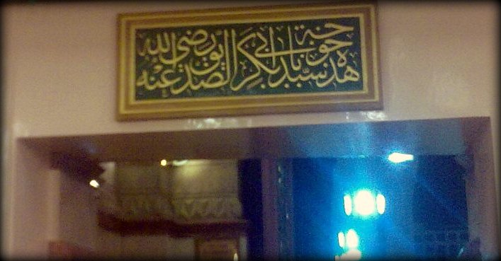 Khawkhat Abu Bakr in Al-Masjid al-Nabawi